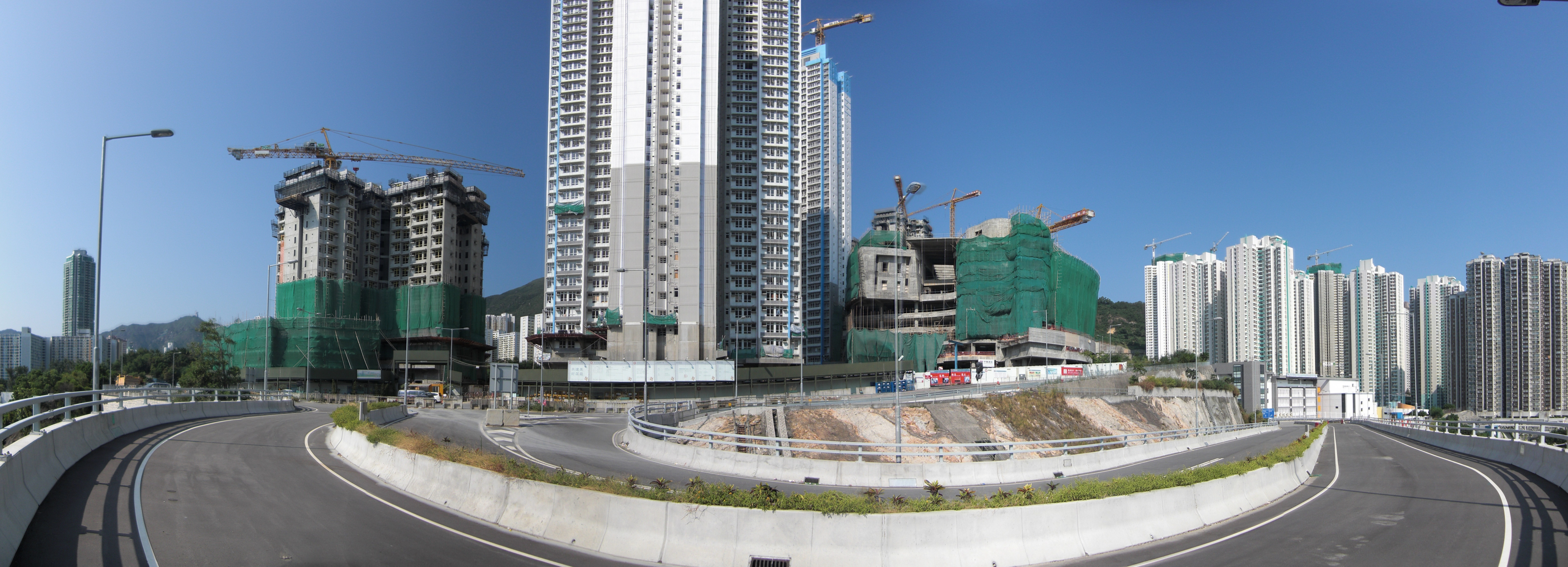 A view taken from Choi Ha Road Extension towards the southeast, Choi Tak Estate under construction can be seen behind them.